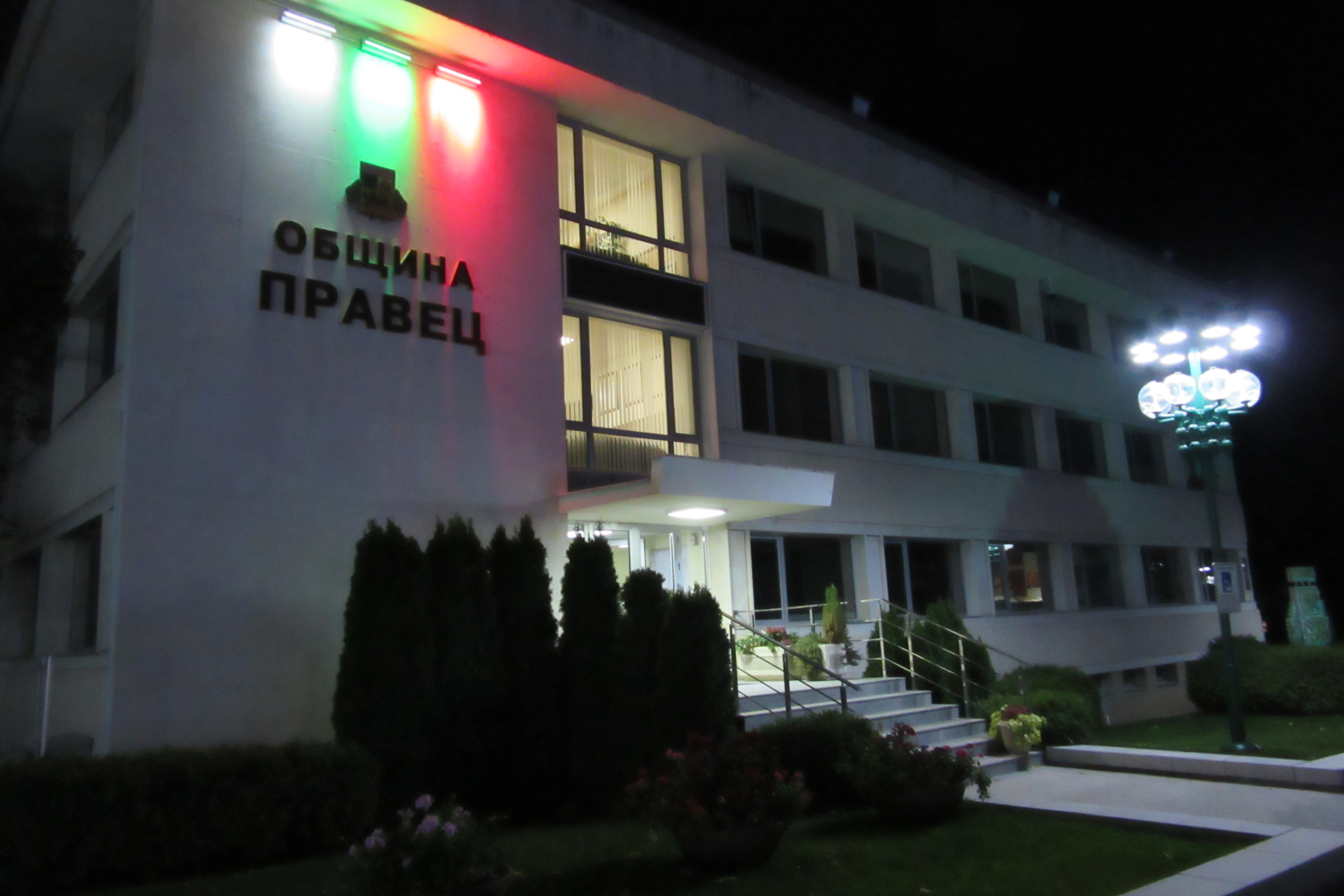 Town halls